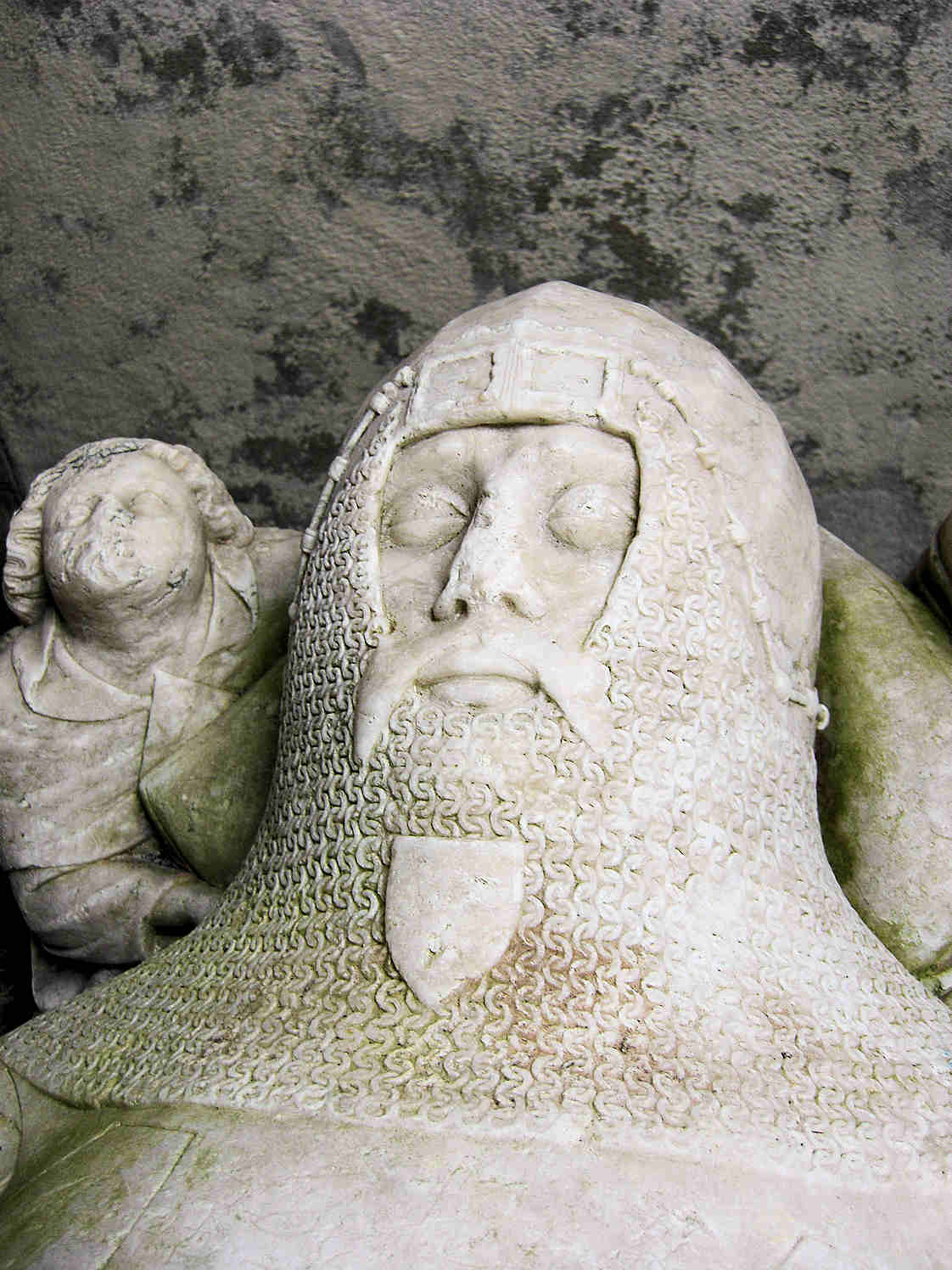 Effigy of Goronwy ap Tudur Fychan at St Gredifael, Penmynydd, North Wales.